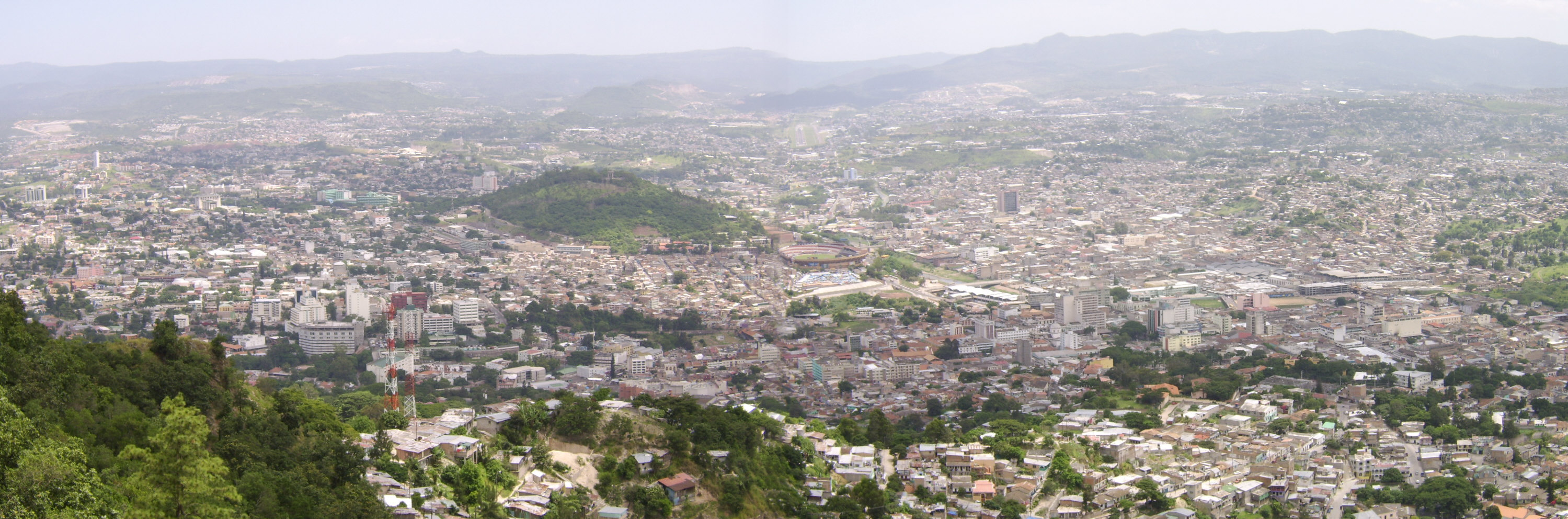 Tegucigalpa as viewed from El Picacho City Park.